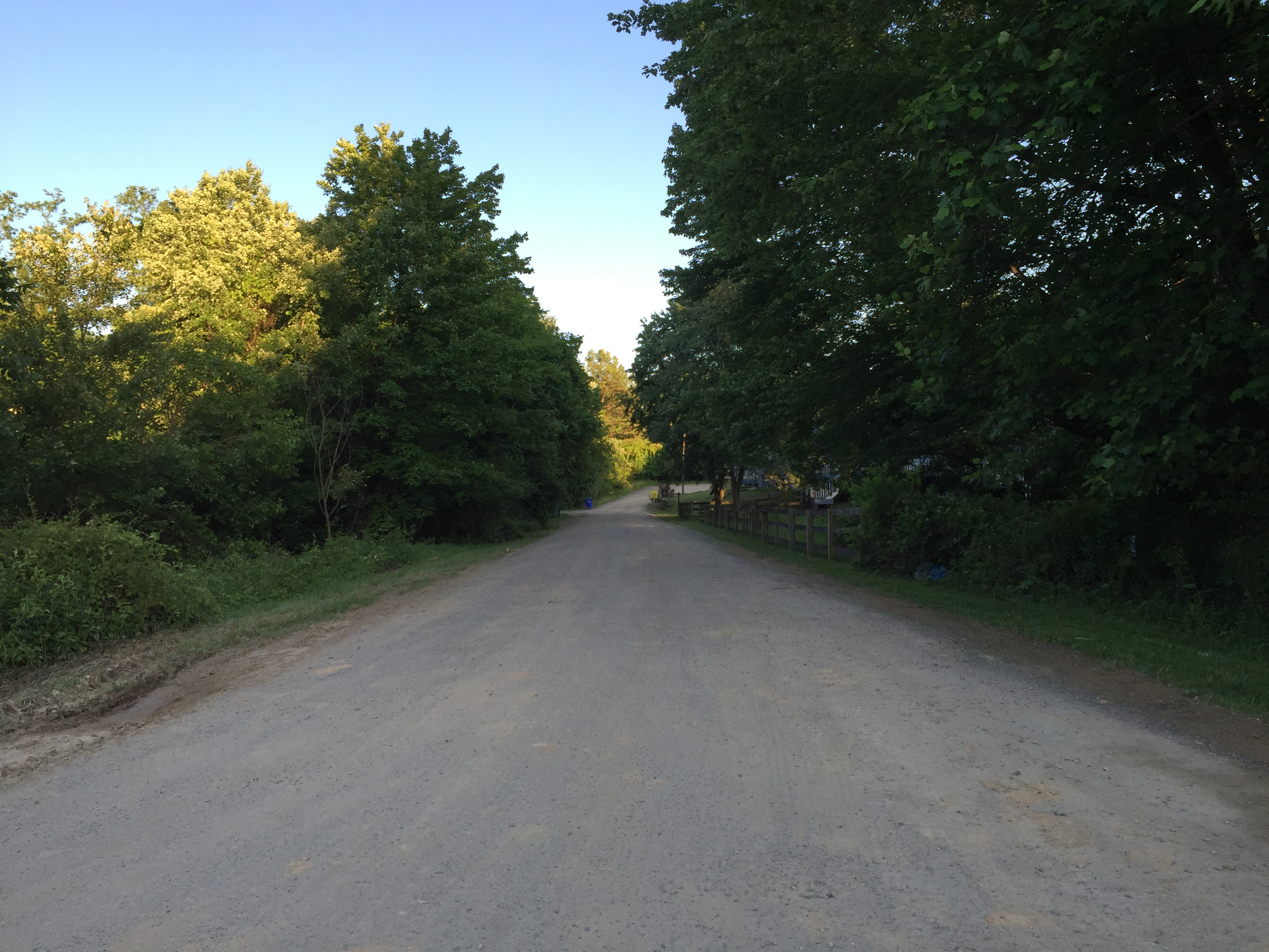 View east at the west end of Maryland State Route 986 (Service Road 3A) at Prince Manor Way in Fulton, Howard County, Maryland